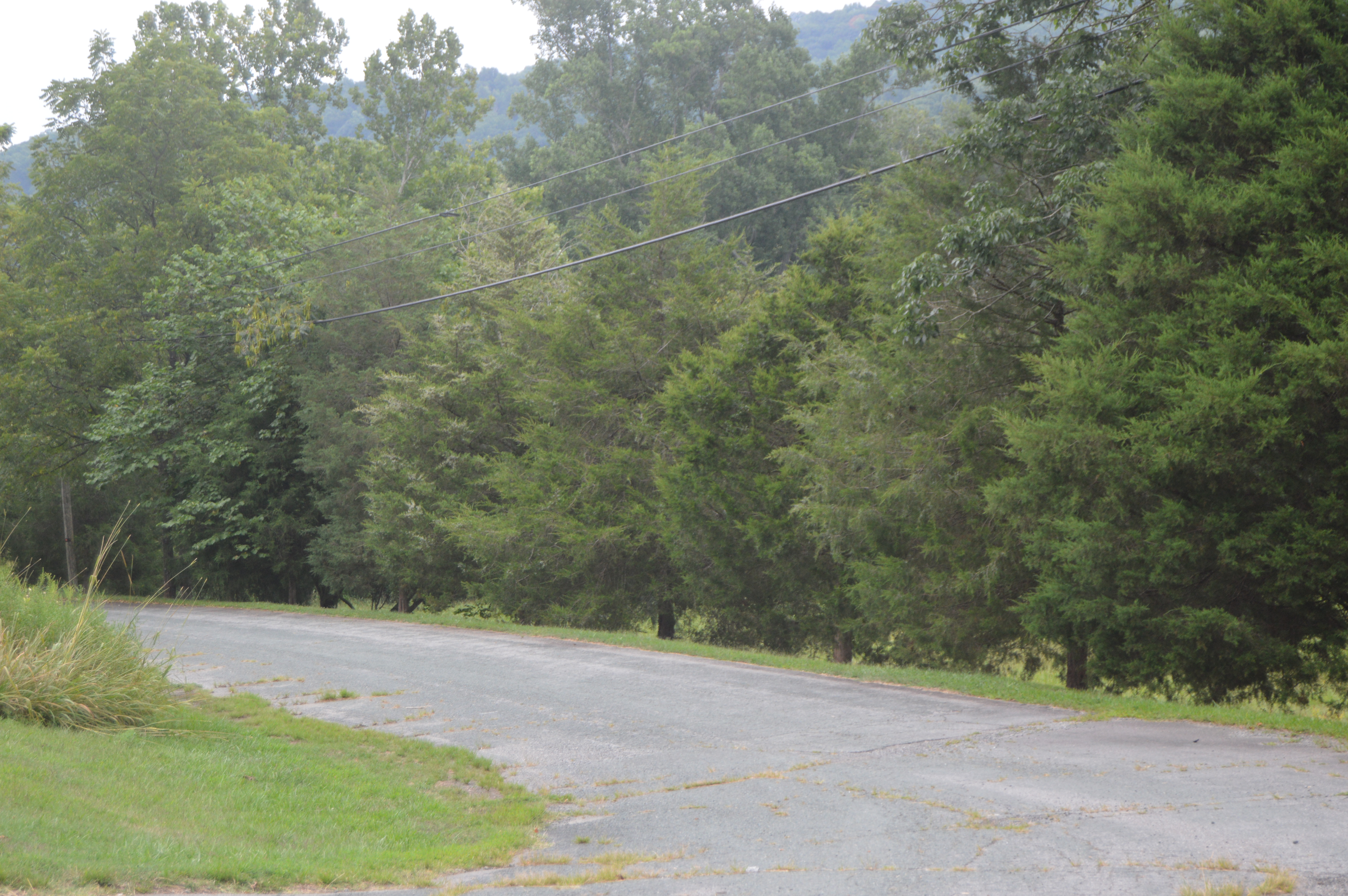 Driveway to the Arrowhead estate, located off U.S. Route 29 southwest of Charlottesville in Albemarle County, Virginia, United States. The estate is listed on the National Register of Historic Places.